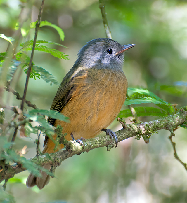 A Grey-hooded Flycatcher in Parque Estadual da Cantareira, São Paulo, Brazil.